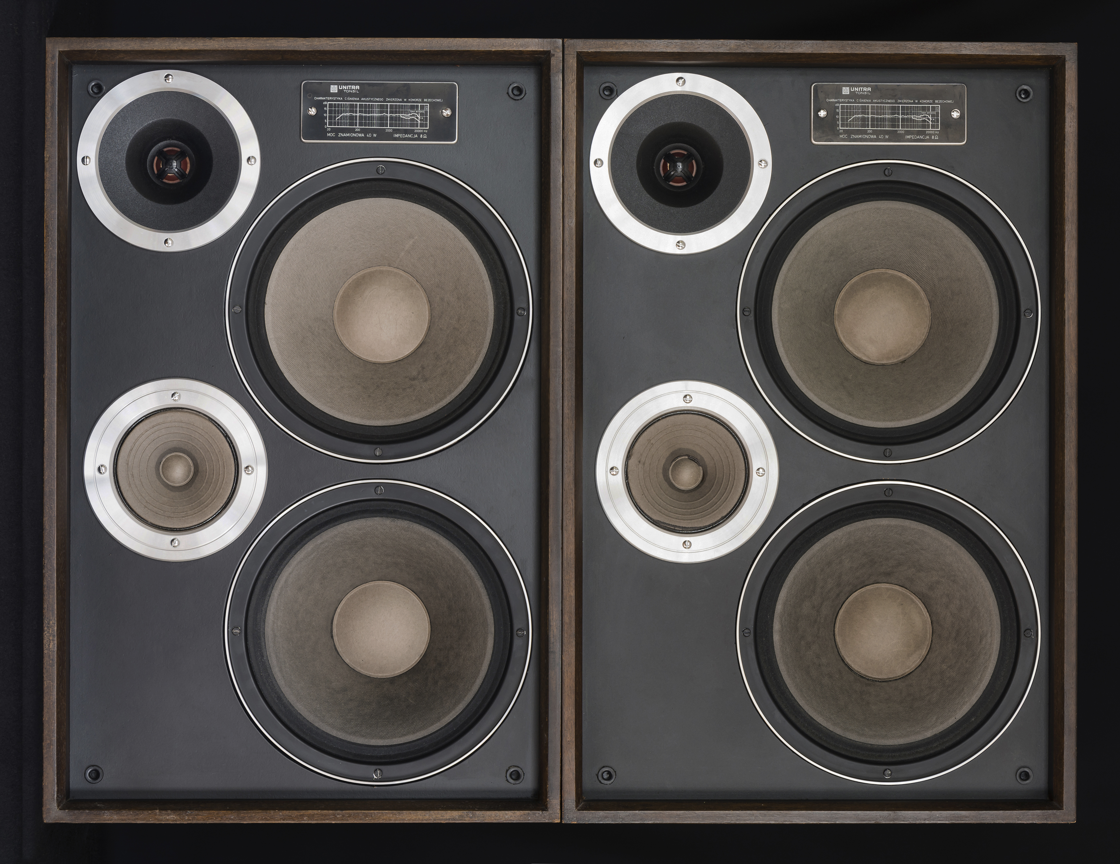 Hi-Fi loudspeakers ZG 40\8